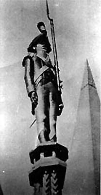 Copper John is a statue of an American Revolutionary War soldier that stands atop the Auburn Correctional Facility in Auburn, New York. Courtesy of User:68.39.174.238. BD2412 T 03:33, 14 June 2006 (UTC)